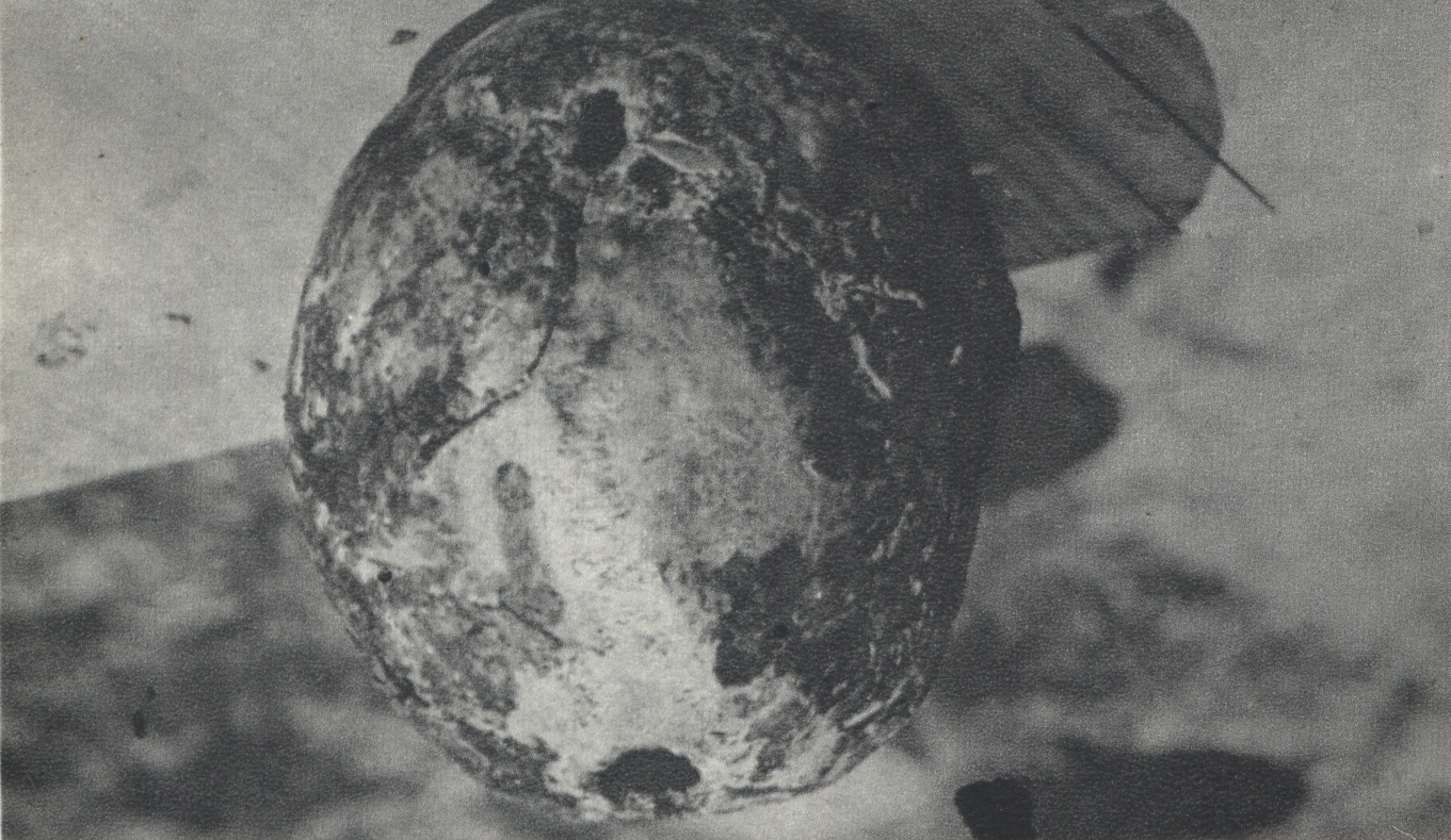 Exhumation of bodies of victims massacred by Nazi-Germans in Palmiry near Warsaw. This human skull belongs to one of the victims and was found in the mass grave.